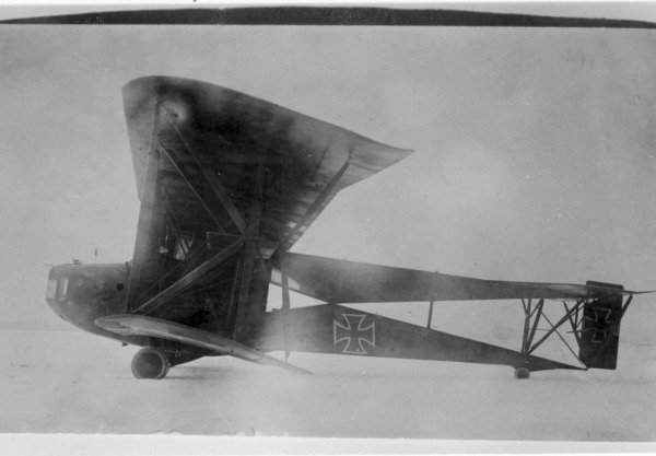 PictionID:43638457 - Catalog:16_004605 - Title:Siemens-Schuckert R.II (Siemens-Schuckertwerke - SSW) - Filename:16_004605.TIF - - - - - - - Image from the Ray Wagner Collection. Ray Wagner was Archivist at the San Diego Air and Space Museum for several years and is an author of several books on aviation --- ---Please Tag these images so that the information can be permanently stored with the digital file.---Repository: San Diego Air and Space Museum